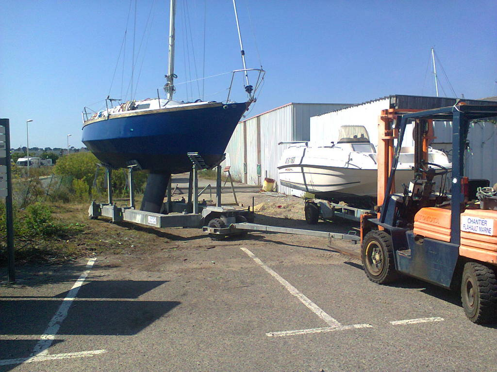 Un bouchain prononcé. On remarque le tirant d'eau assez important.